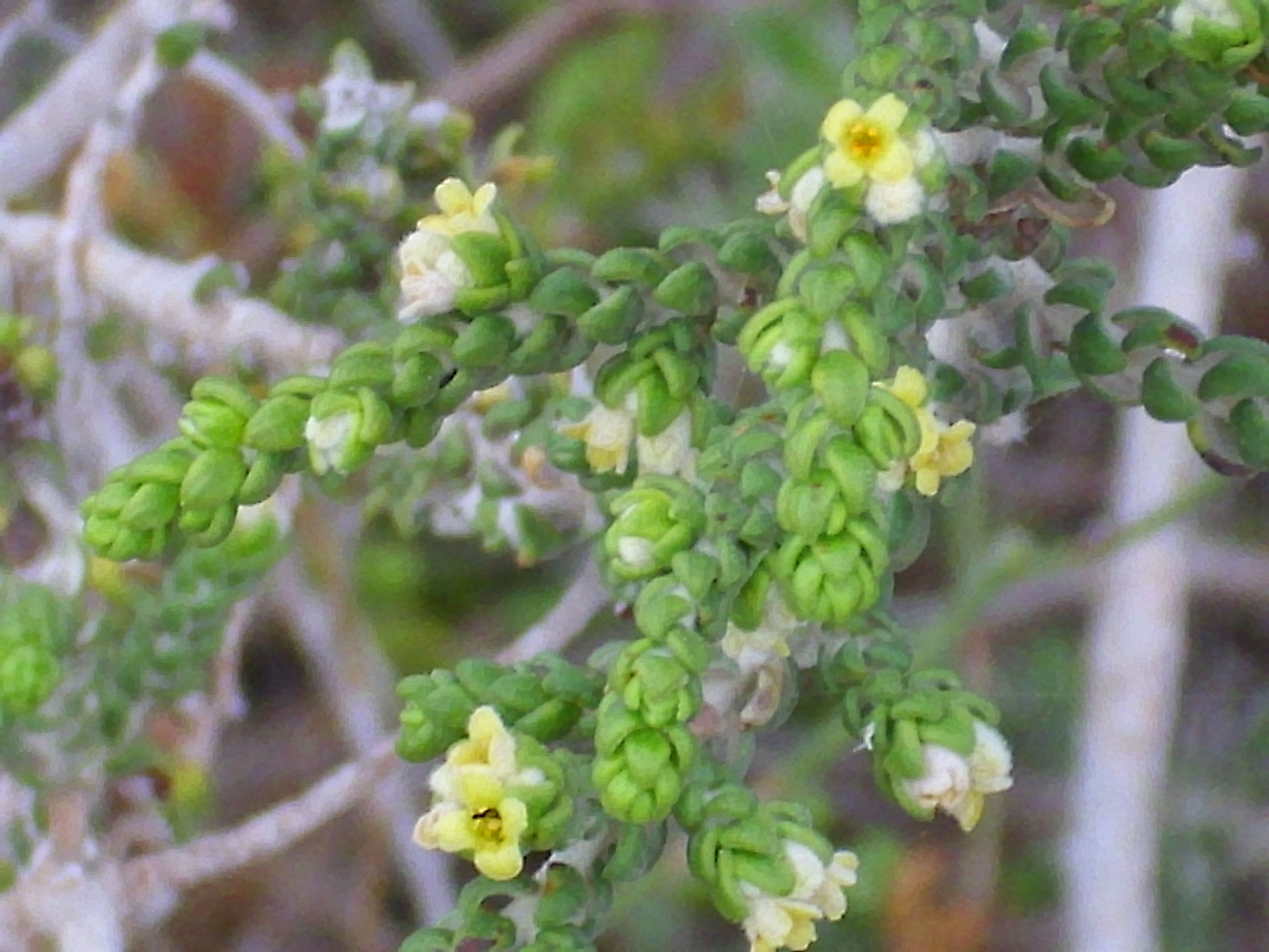 Thymelaea hirsuta Stems close up, La Mata, Torrevieja, Alicante, Spain.